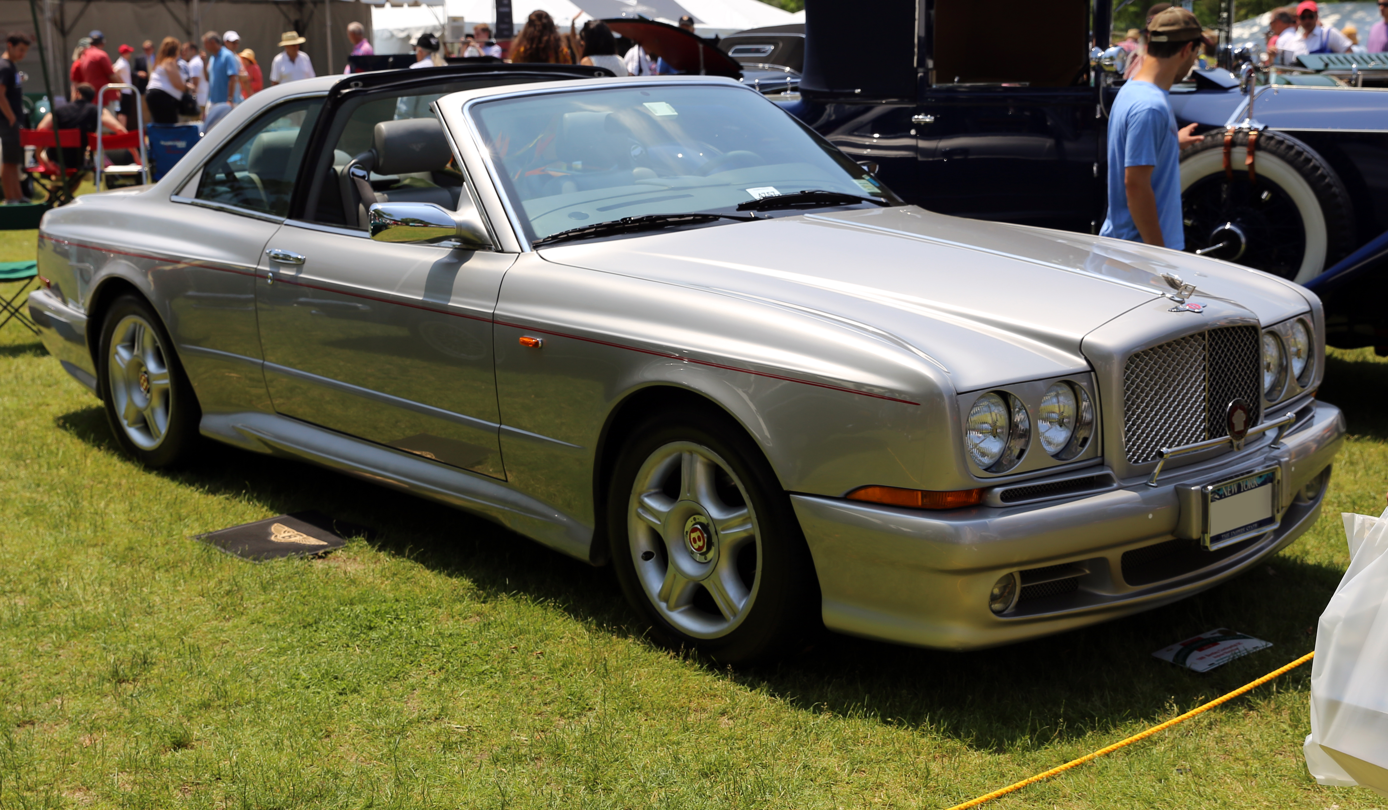 1999 Bentley Continental SC sedanca (that's a T-top to us plebeians) at the 2013 Greenwich Concours d'Elegance.